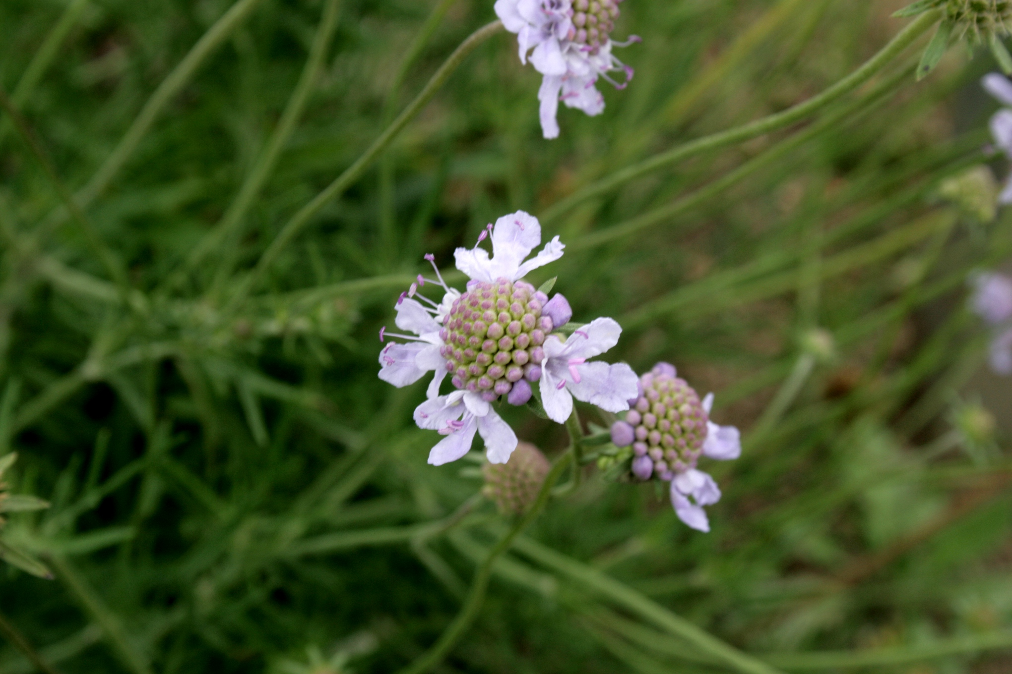 Scabiosa canescens: Flowers